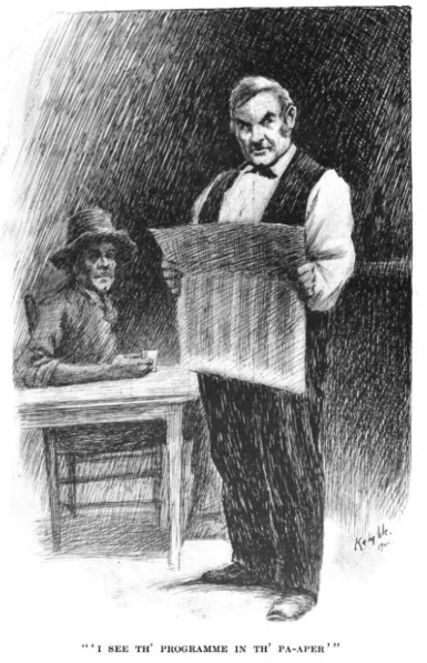 Drawing of the fictional bartender Mr. Dooley and his customer Hennessy